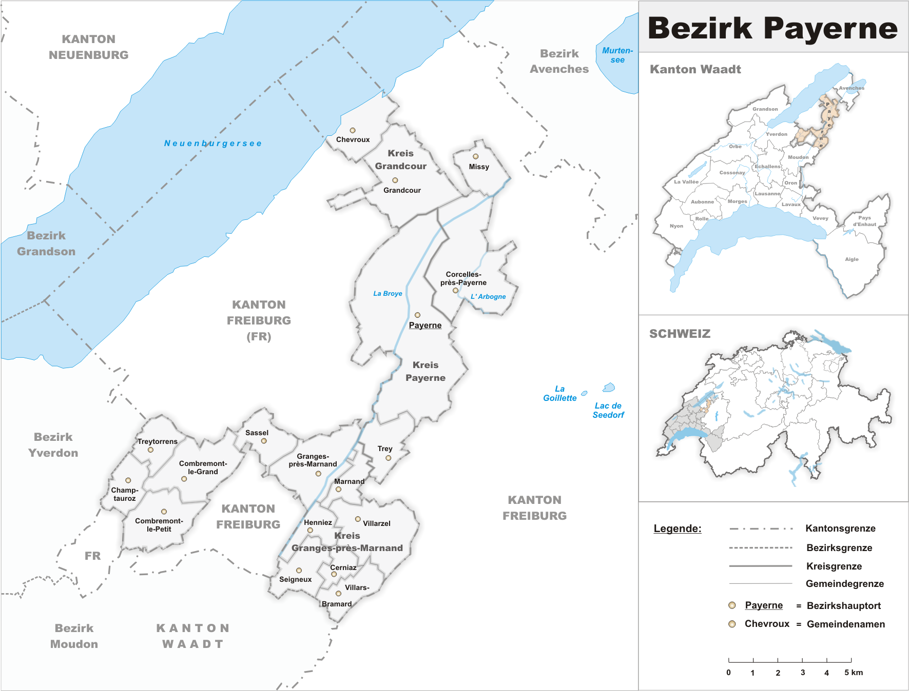 Municipalities in the district of Payerne